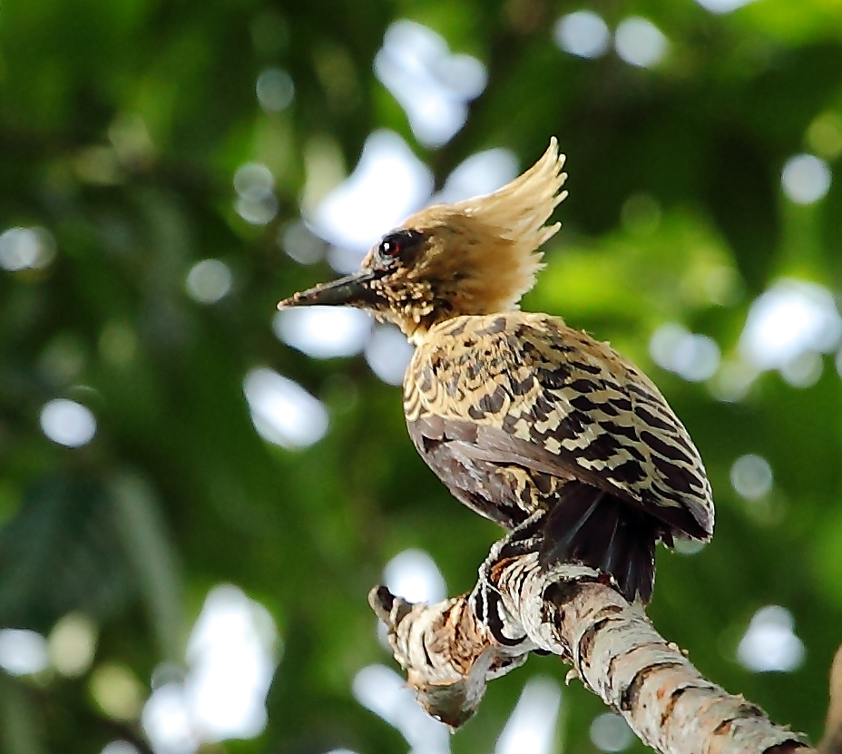 Ochre-backed woodpecker (female) at Guaramiranga - Ceará - Brazil